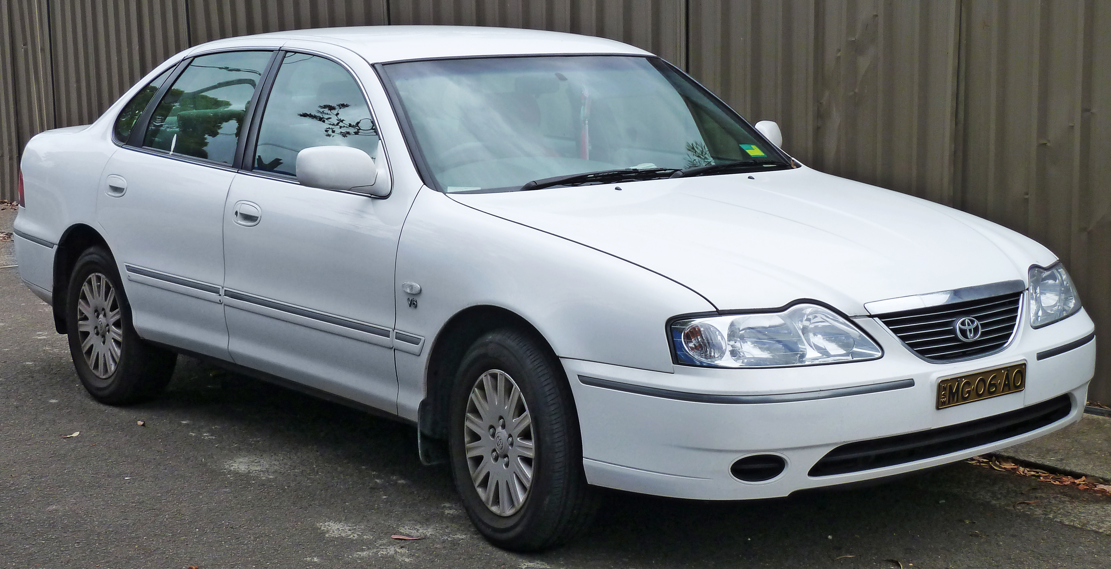 2004 Toyota Avalon (MCX10R Mark III) GXi sedan. Photographed in Sans Souci, New South Wales, Australia.